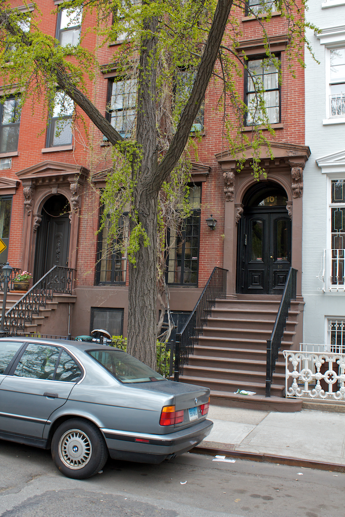 Huxtable House as seen in The Cosby Show. 10 St. Luke's Place, Manhattan.